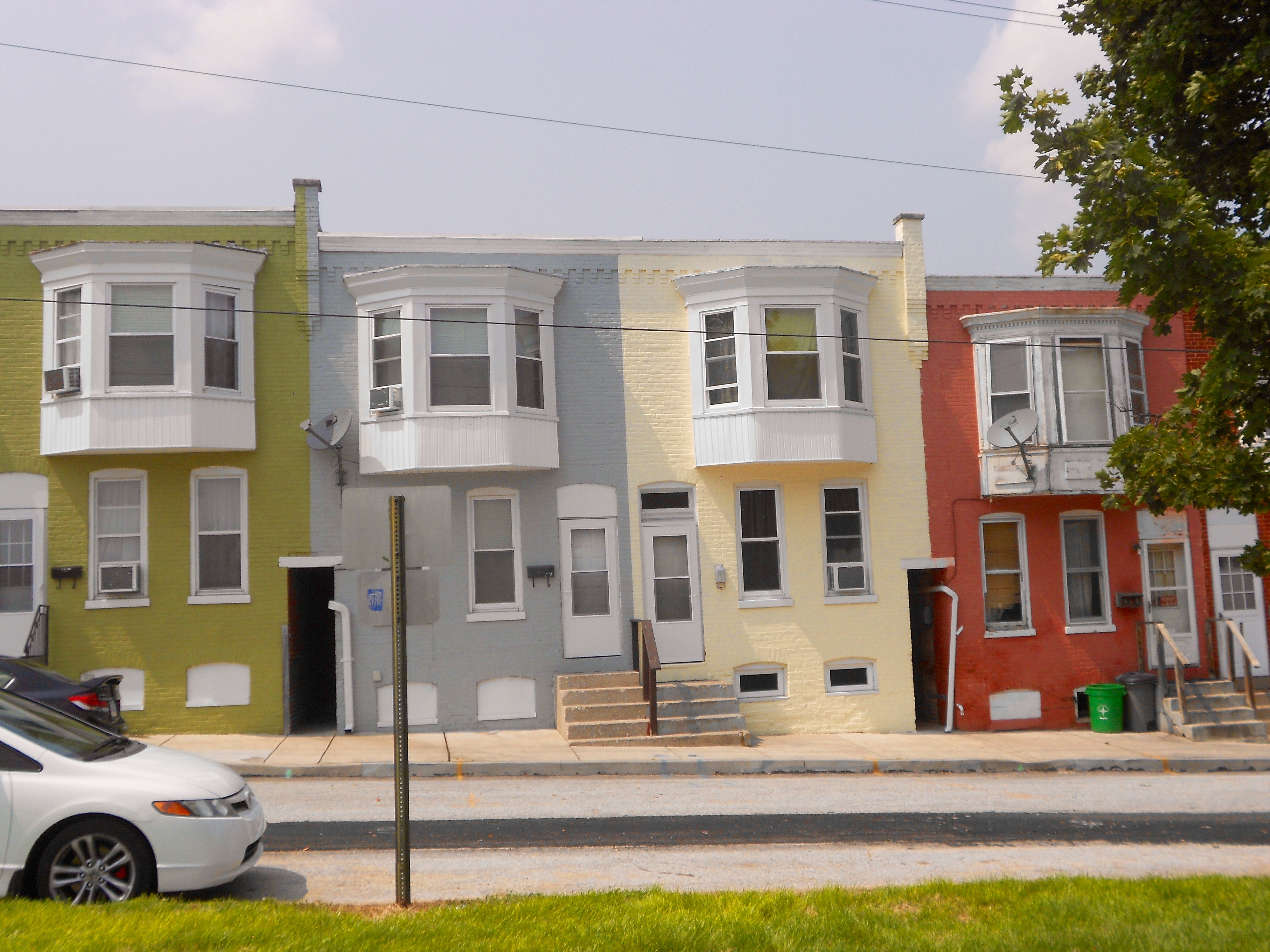 Houses in the borough of North York, Pennsylvania, across from the park.